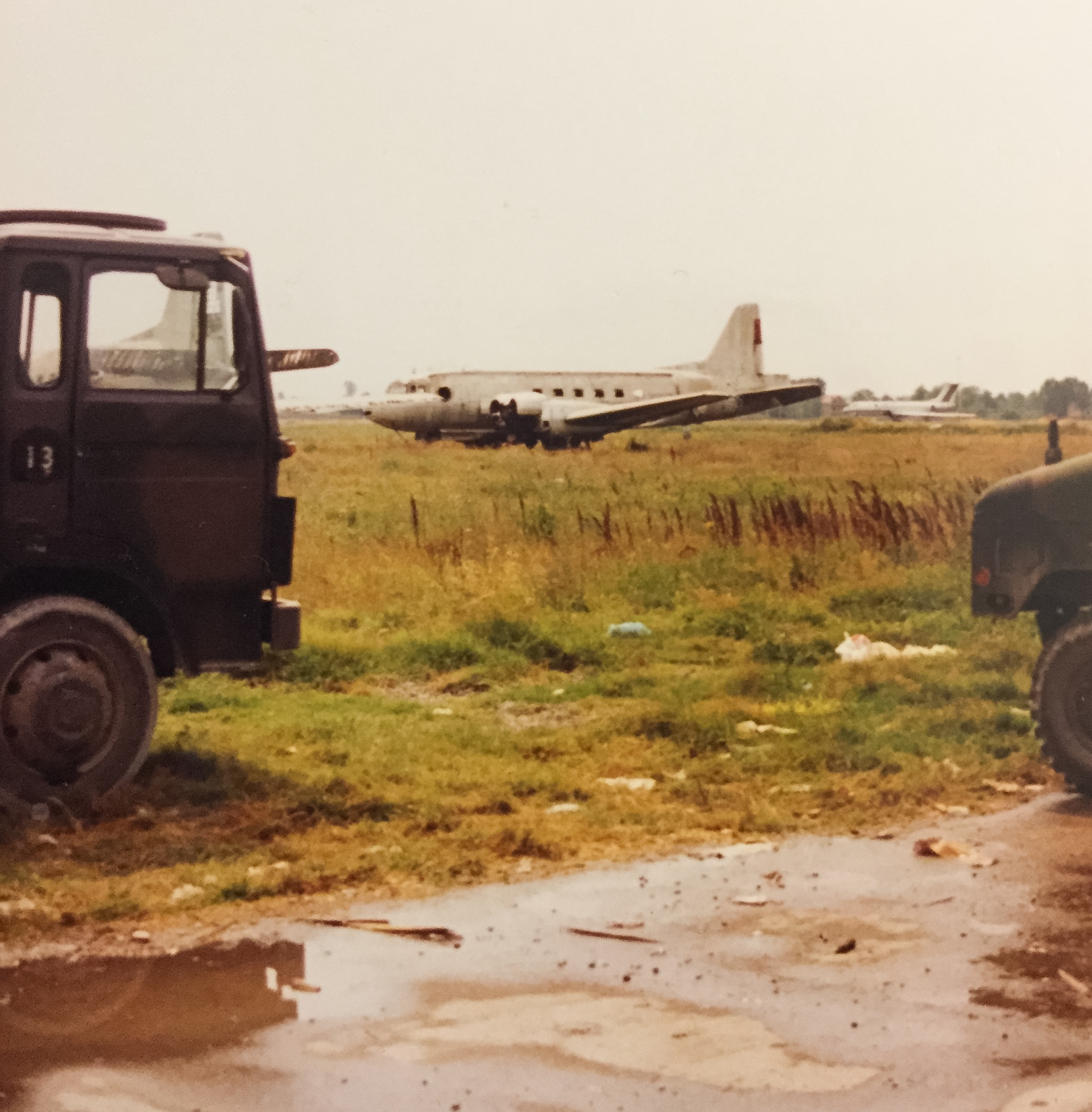 Old Ilyushin-14 aircraft of "Albtransport" at Tirana Airport in 1999 shortly after the end of the Kosovo war.